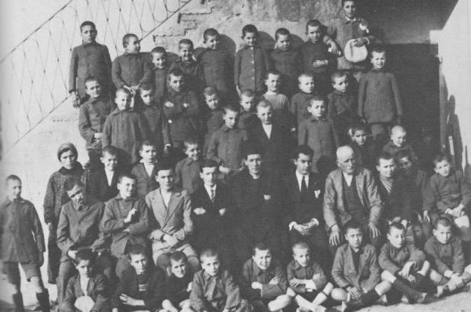 Picture of Don Baronio with its first students